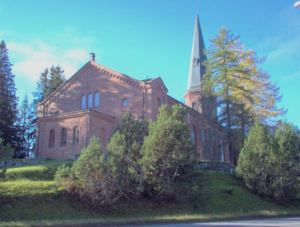 Liperi Church in Liperi, Finland